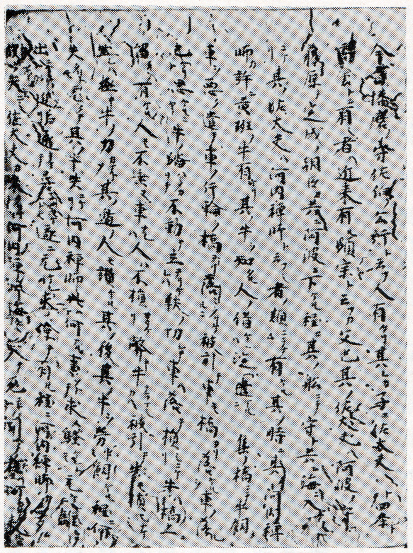 『今昔物語集』鈴鹿本、巻第二十七第二十六語